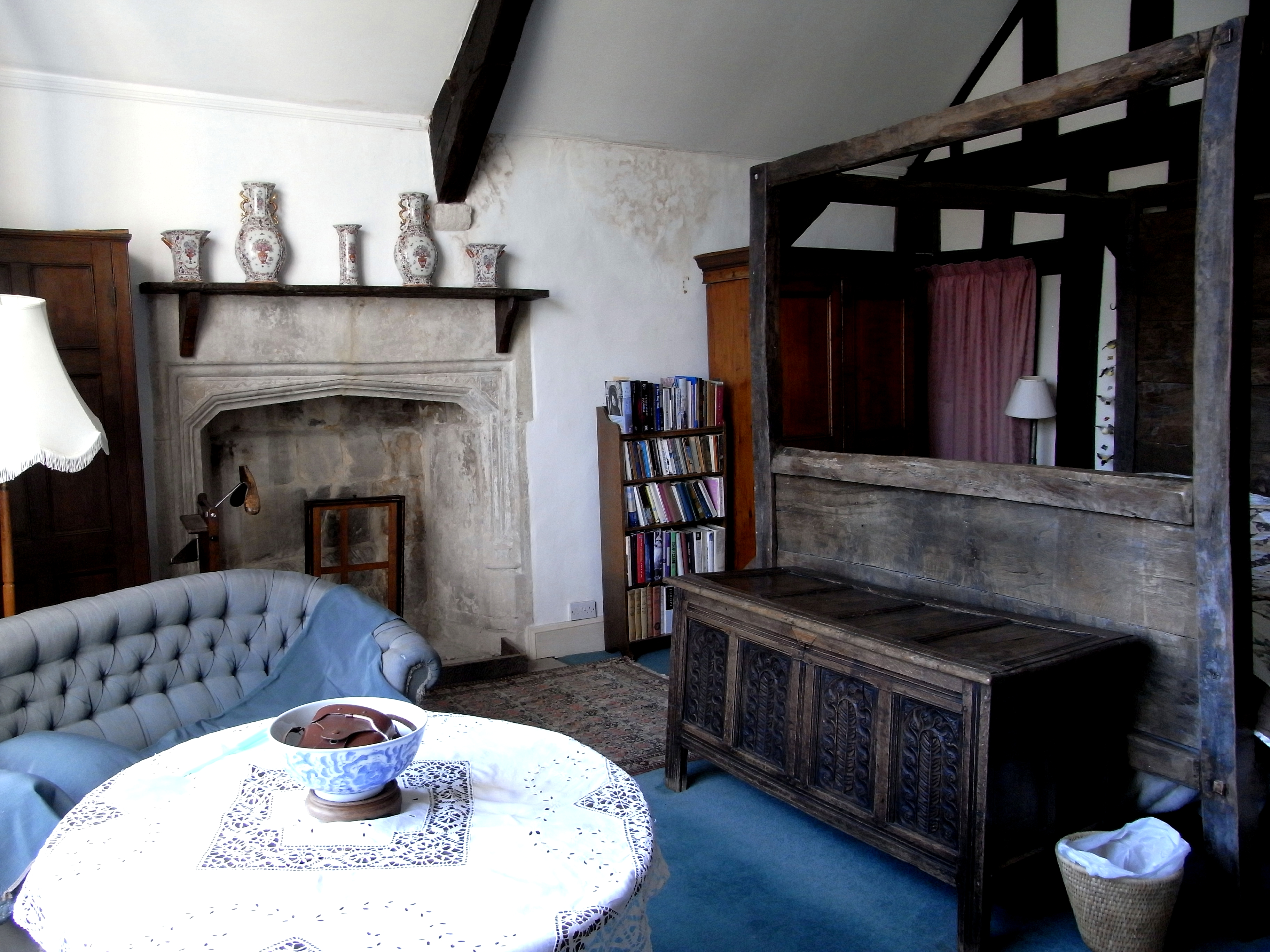 Bedroom of Dorothy Wadham (d.1618), co-founder of Wadham College, Oxford. In Edge Barton, Branscombe, Devon